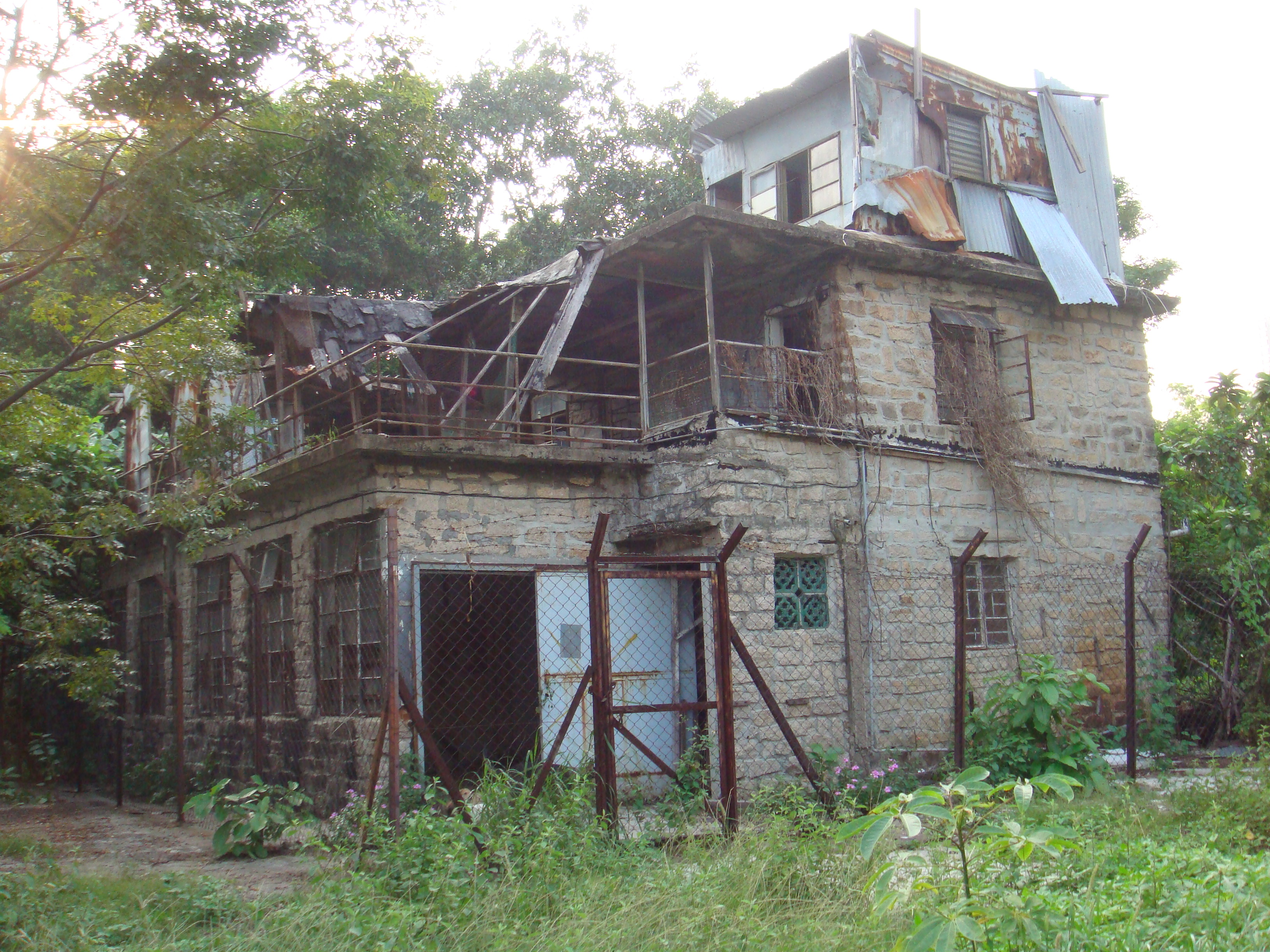 Remaining Stone House at No.4, Tai Koon Yuen, former Tai Hom Village. 中文（香港）: 九龍鑽石山大觀園4 號石寓